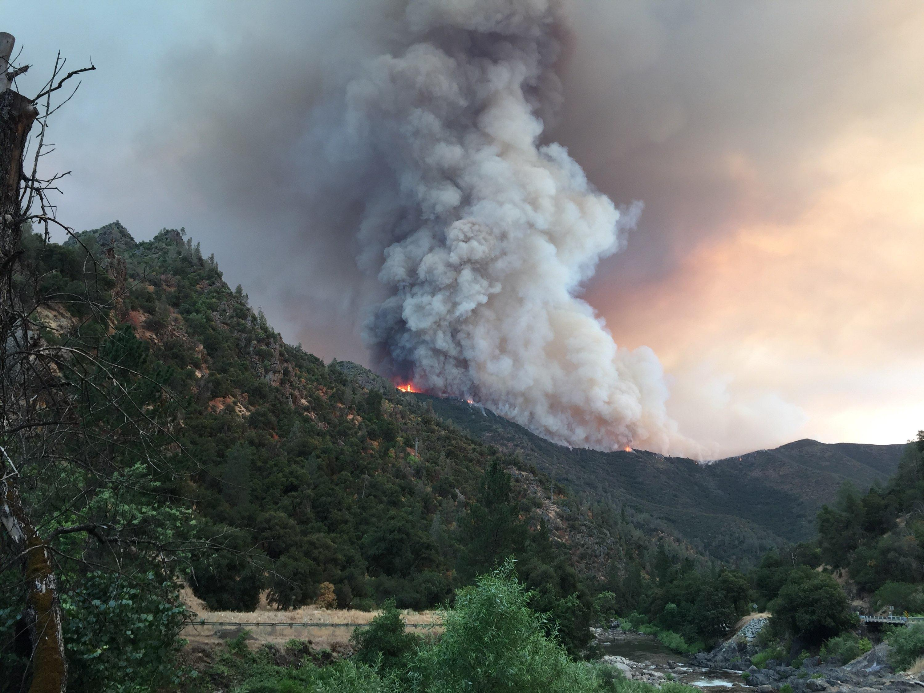 Ferguson Fire near Yosemite National Park on July 14, 2018. Probably taken from El Portal, California, showing fire on a ridge above the Merced River.